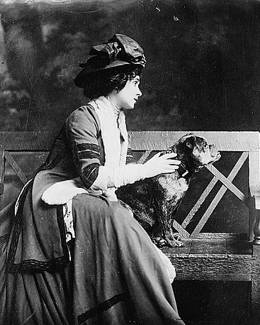 Lady Victoria Marjorie Harriet Manners (1883–1946), wife of Charles Paget, 6th Marquess of Anglesey